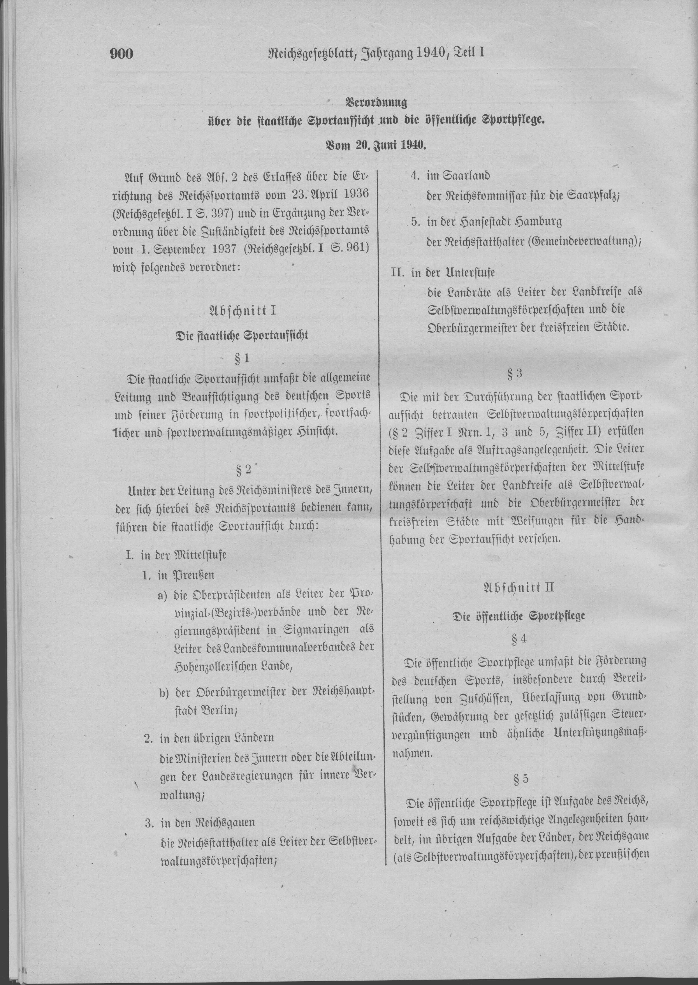 Scan from the Imperial Law Gazette of Germany, 1940, part 1